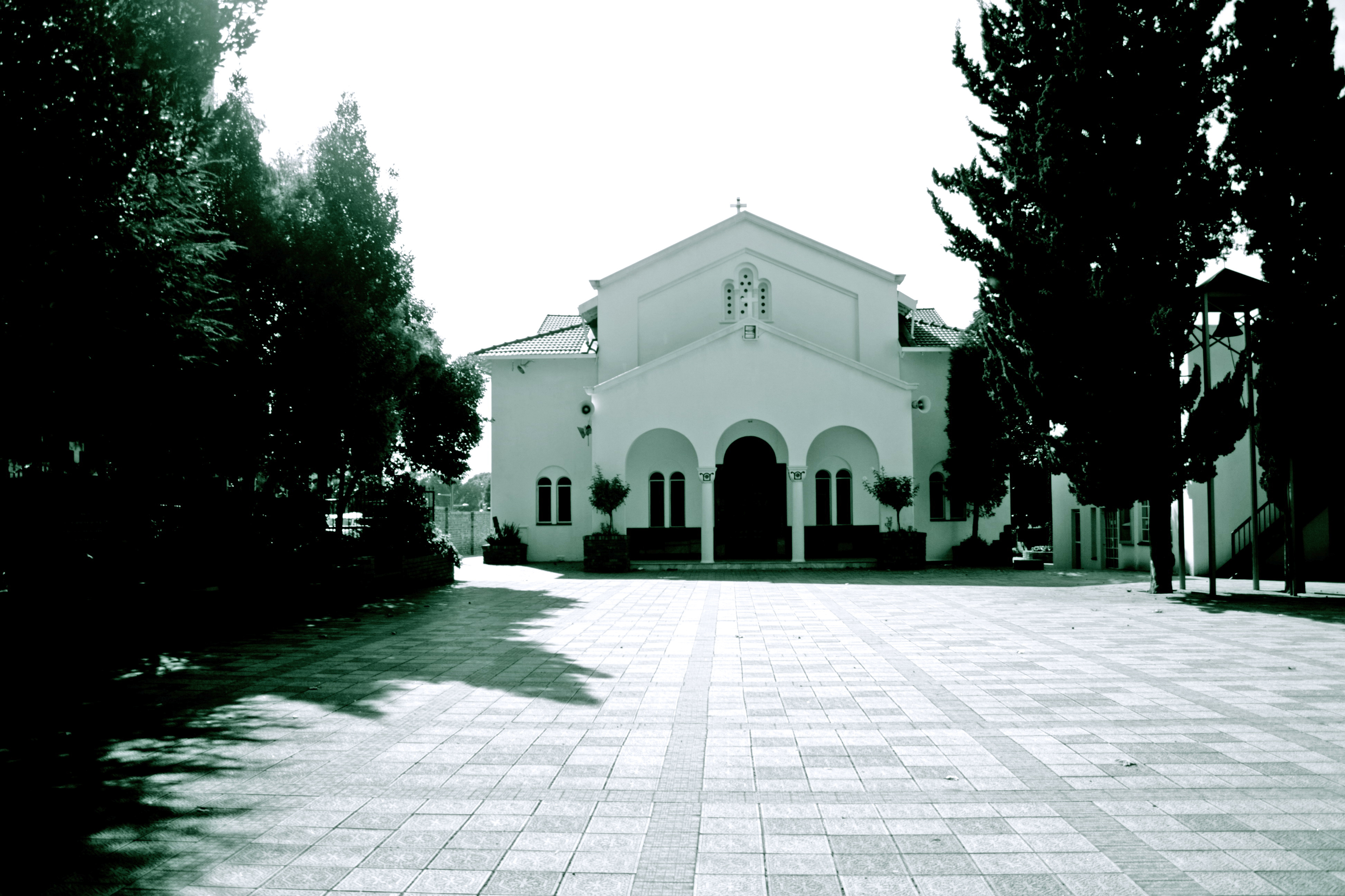 This Greek Orthodox Church designed by architect Hermann Kallenbach, Hillbrow, Johannesburg. This media shows a South African Protected Site with SAHRA file reference [1].